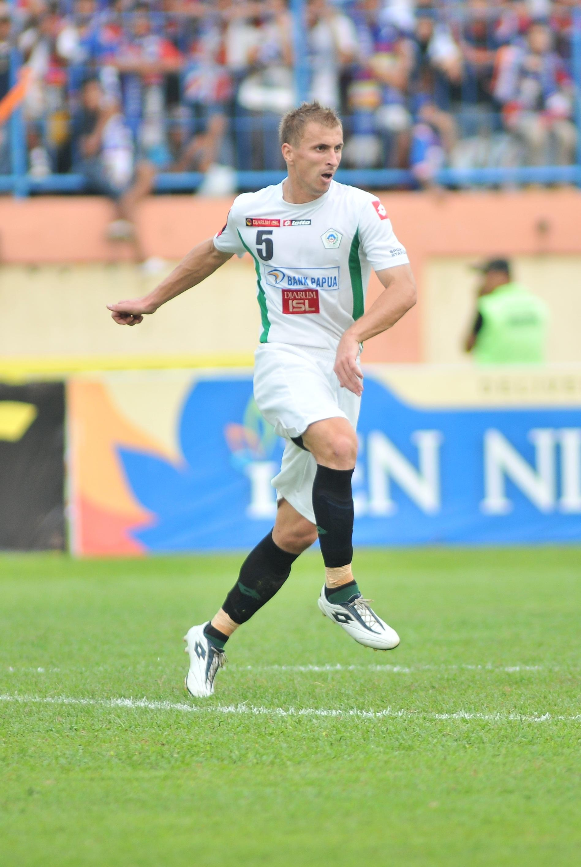 Zecevic